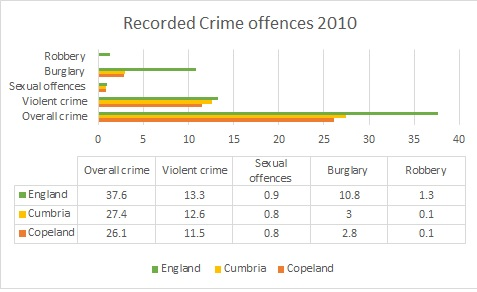 The level of recorded crime in the local authority compared with national information for different types of crime. The data is shown as a rate per 1,000 residents (or 1,000 households for burglaries).